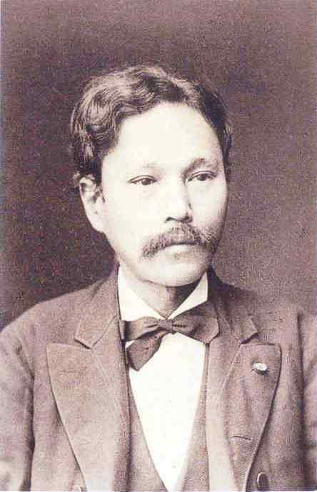 before 1882